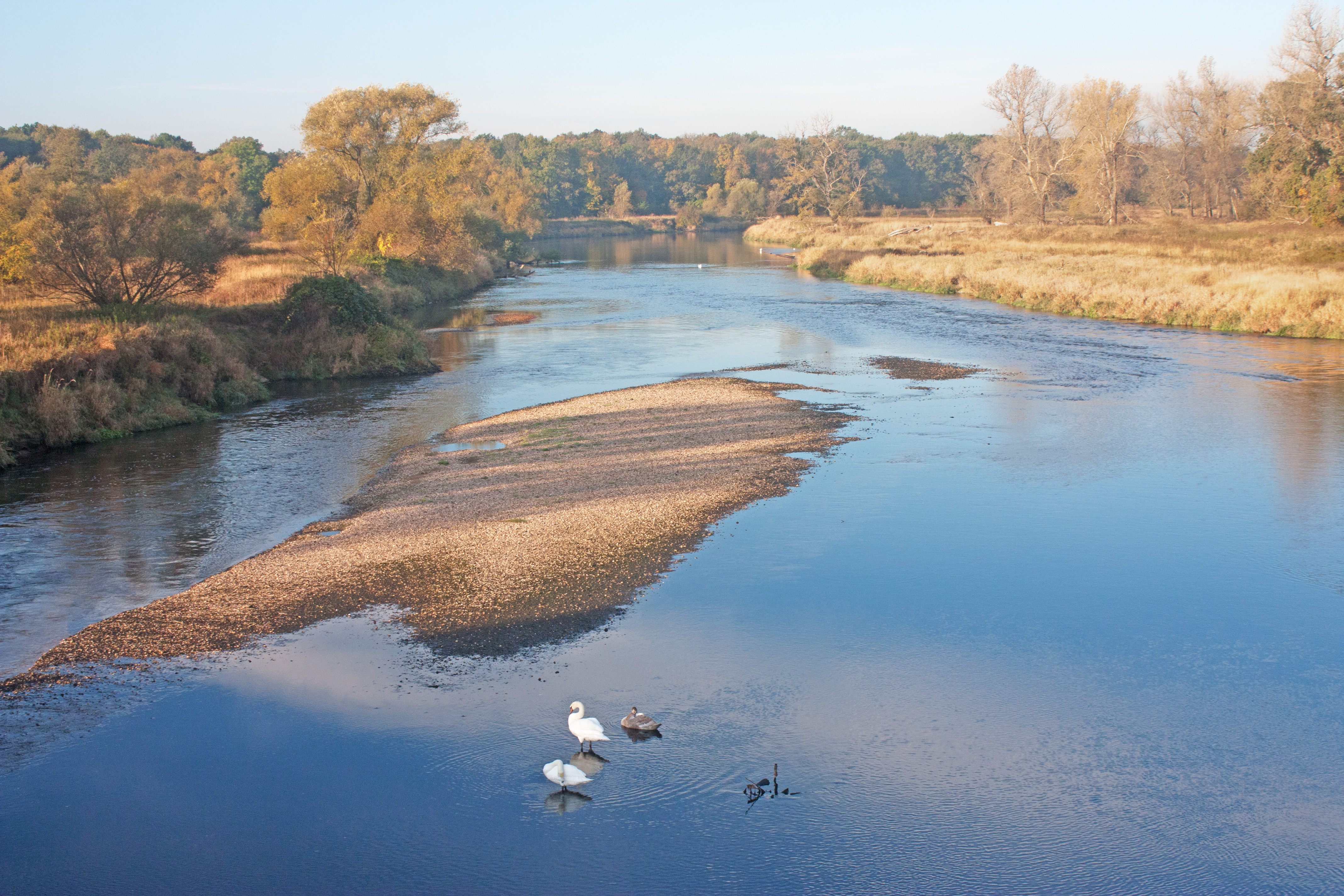 The river Mulde close to Törten, a district of the town Dessau-Roßlau (Nature reserve Untere Mulde, Saxony-Anhalt)